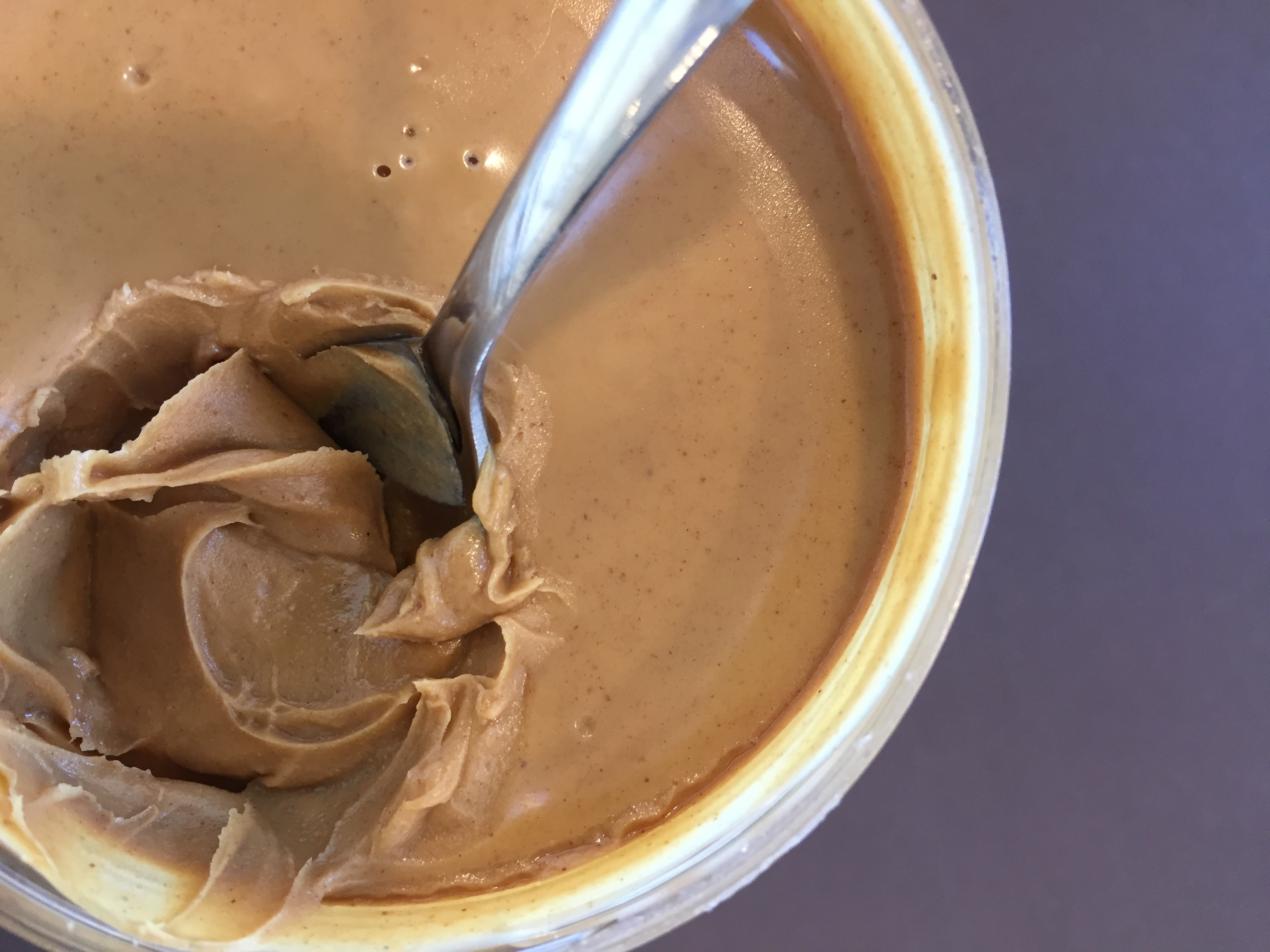 A jar of peanut butter. Credit: NIAID